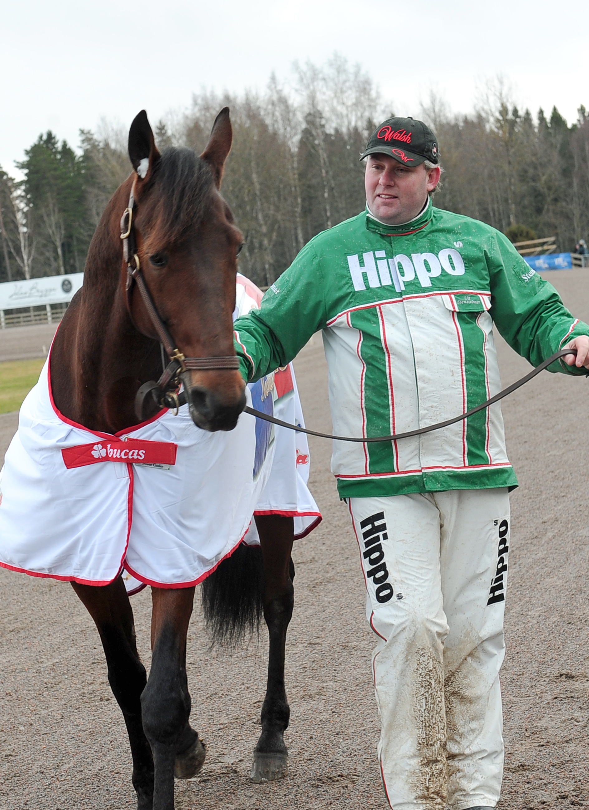 foto : ck : noras bean_stenströmer ulf_hyllas för segern i prix de france